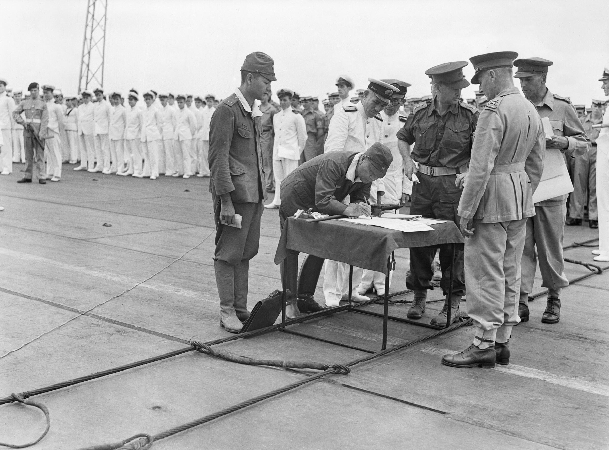 General Imamura signing the official document of surrender for Japanese forces in New Britain, New Ireland, the Solomons and New Guinea, on the flight deck of HMS GLORY off Rabaul, 12 September 1945. General Imamura, Japanese South-Eastern Army Chief, signing the official document for the surrender of 139,000 Japanese in New Britain, New Ireland, the Solomons and New Guinea. The surrender ceremony took place on the flight deck of HMS GLORY off Rabaul. Lieutenant General Sturdee, GOC First Australian Army, who signed for the Allies, is closely watching the Japanese General from the other side of the table. Admiral Jin Icha Kusaka signed the treaty for the Japanese south eastern naval forces.